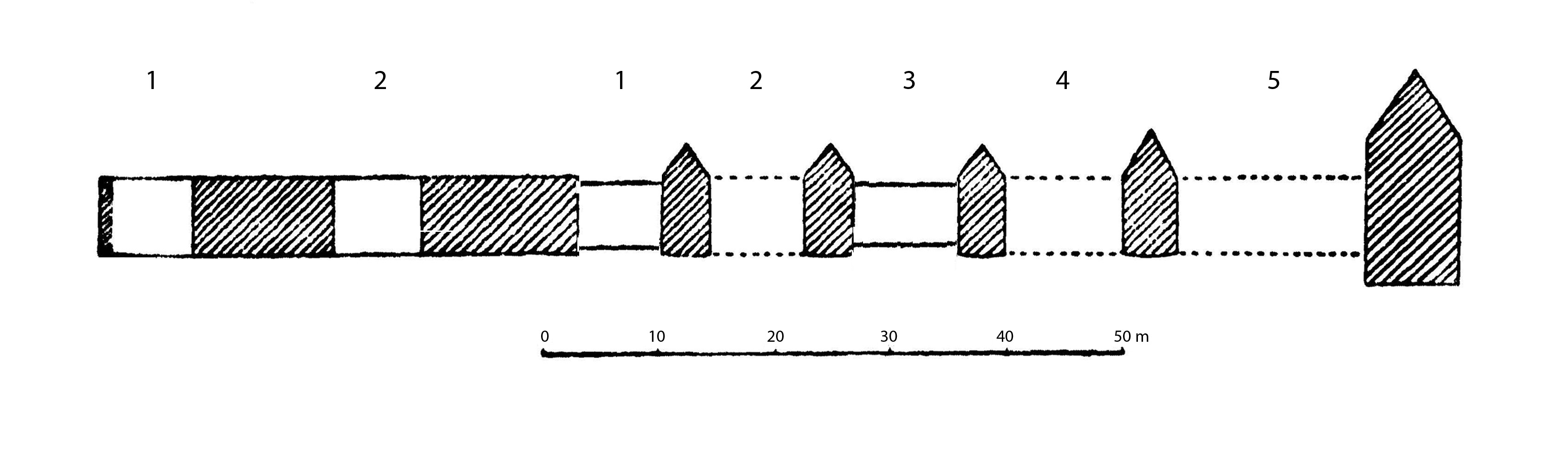 Ground plan of the remains of the Roman Alconétar Bridge at the right-hand bank. These include the abutment, five piers and four arches. From left to right: 1 = 1st floodway (Roman) 2 = 2nd floodway (Roman) 1 = 1st bridge arch (post-ancient) 2 = 2nd bridge arch (destroyed) 3 = 3rd bridge arch (post-ancient) 4 = 4th bridge arch (destroyed) 5 = 5th bridge arch (destroyed), orginally possibly two arch vaults